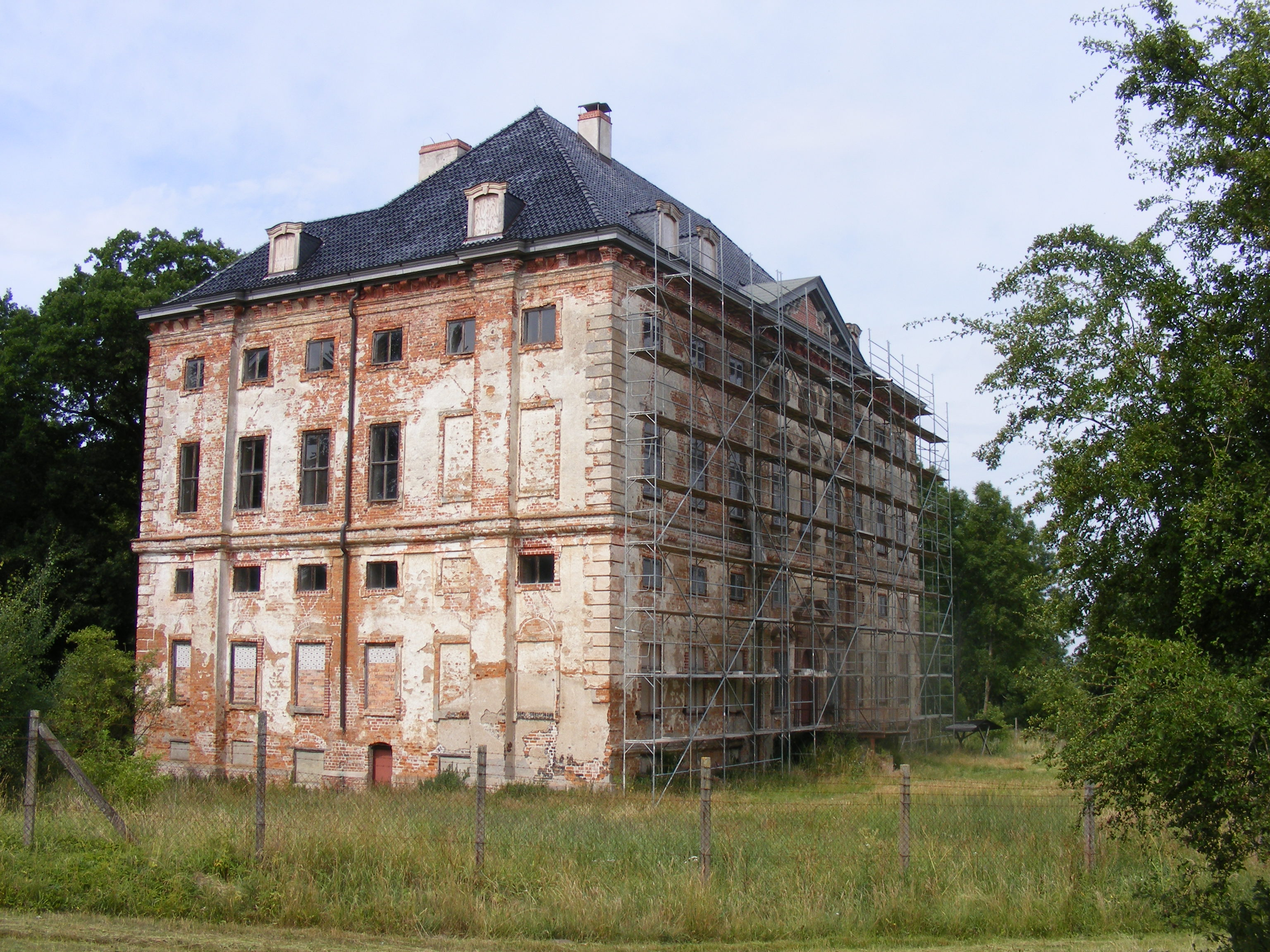 Rossewitz Castle, Mecklenburg. (July 2008)